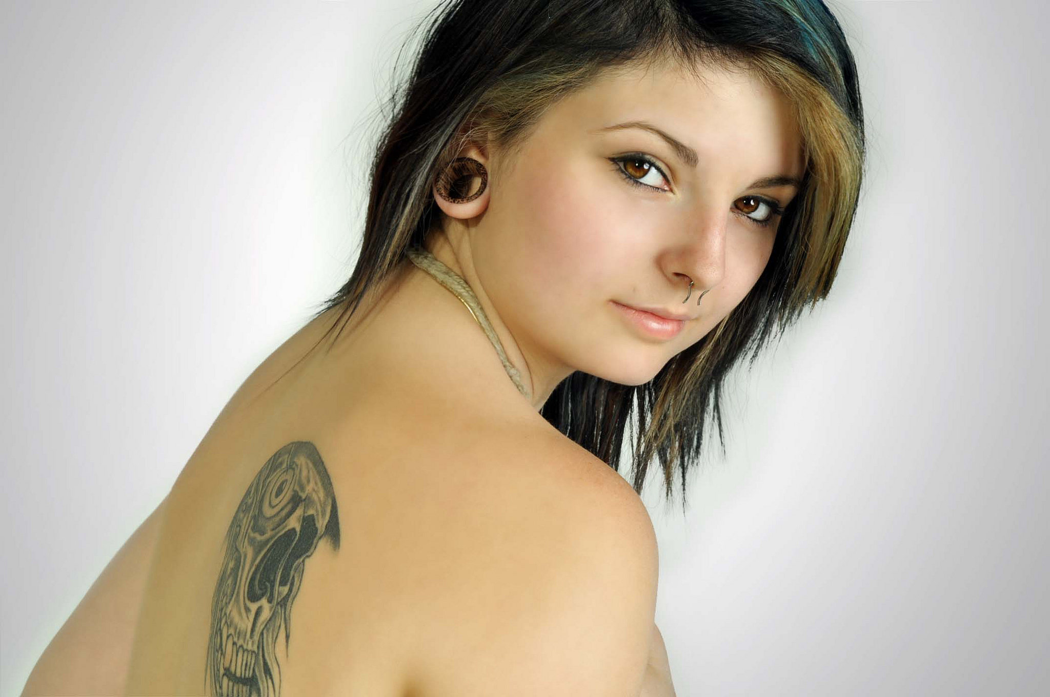 Dana - with back tattoo and stretched lobes, Twitter.